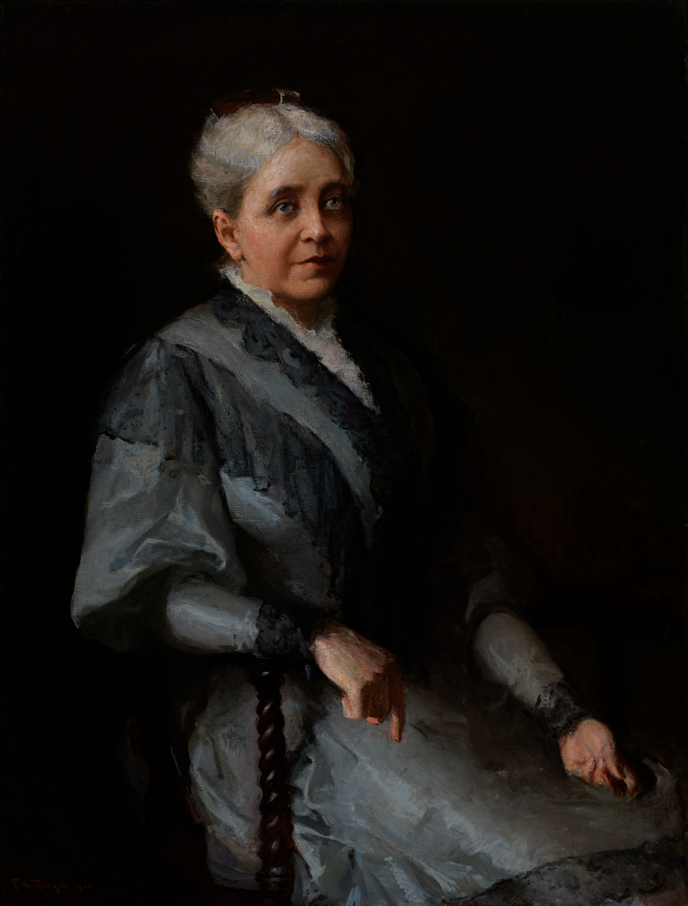 Portrait of Helen Adelia Rowe Metcalf (1906) Frank Weston Benson (American, 1862-1951) Oil on canvas 107 x 81.6 cm